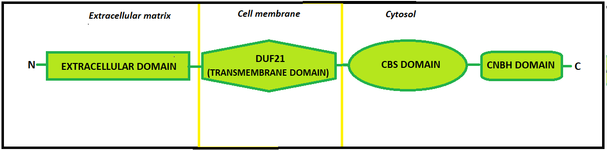 Representation of CNNM3 protein, with its four main domains in the part of the cell in which they are located.